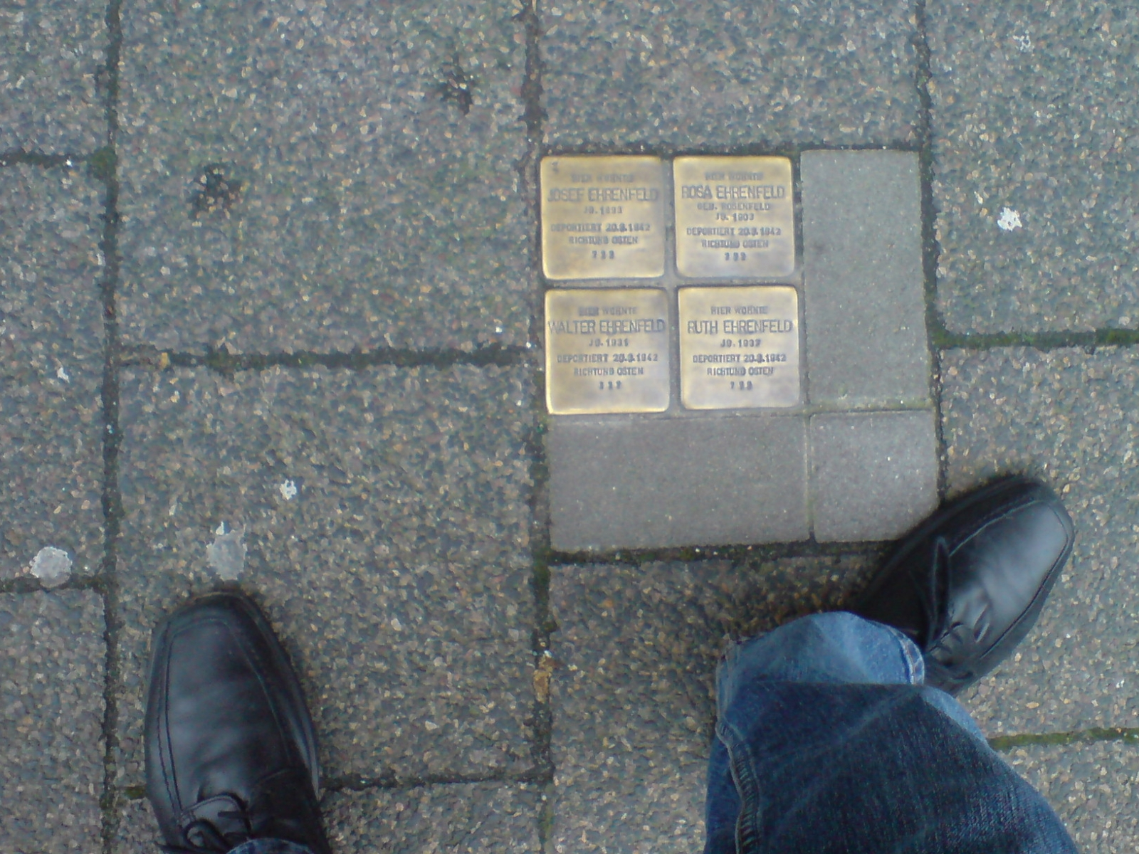 Stolpersteine in Darmstadt, Germany.